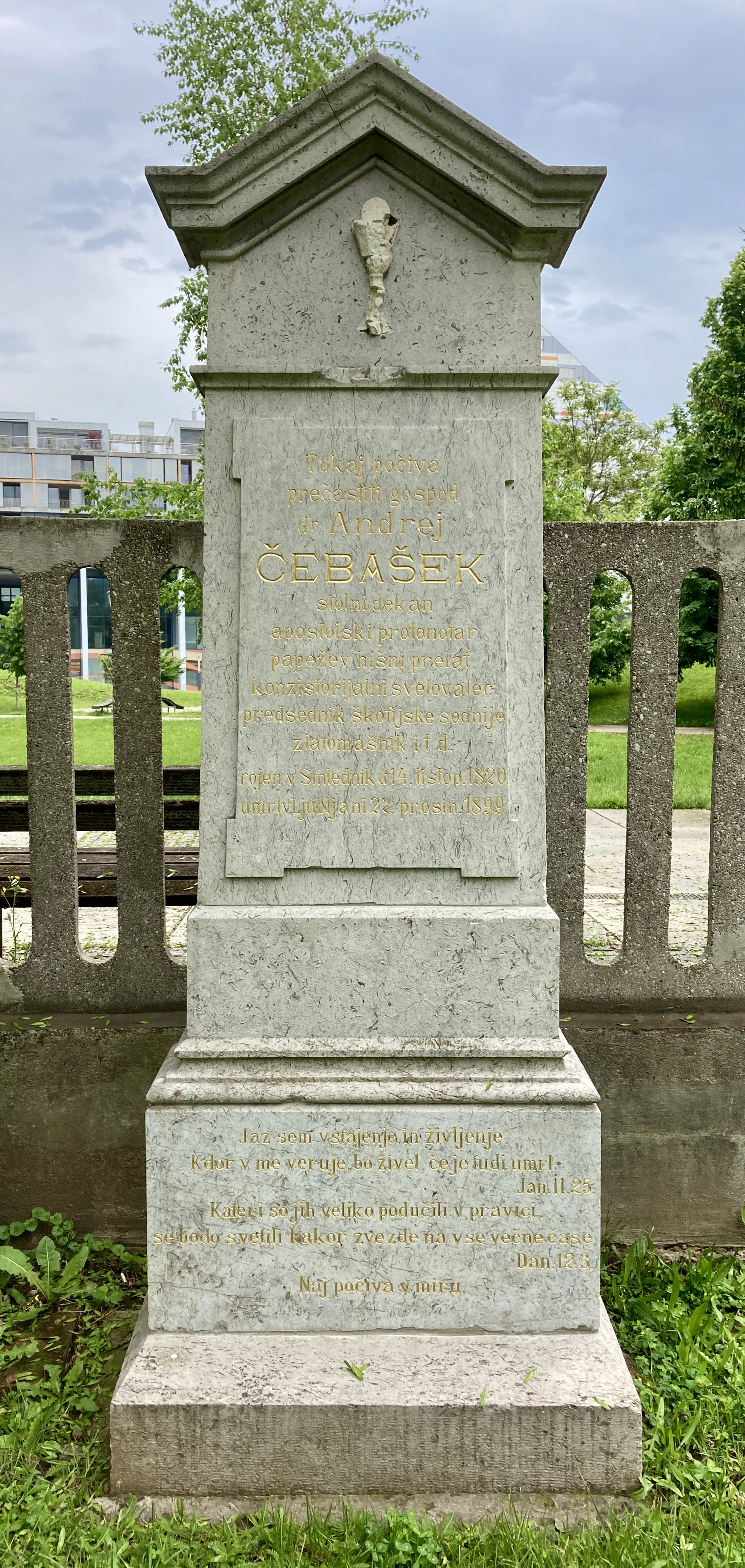 Tombstone of Andrej Čebašek, Slovenian catholic priest and theologian, at Navje in Ljubljana